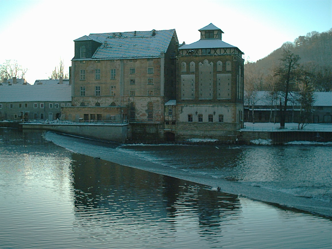 Old water mill in Bad Kösen.